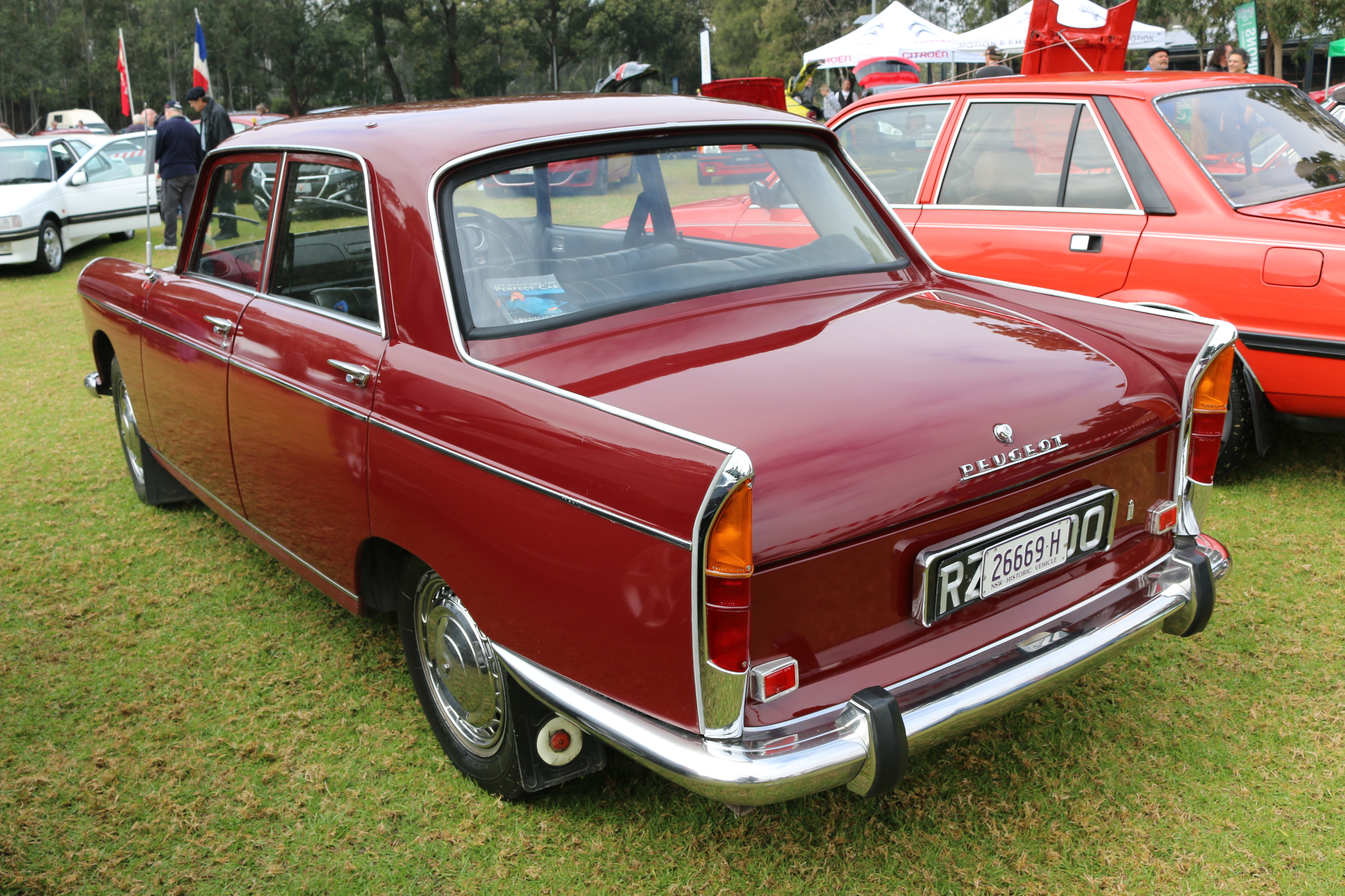 All French Day, Silverwater Park, NSW July 2016